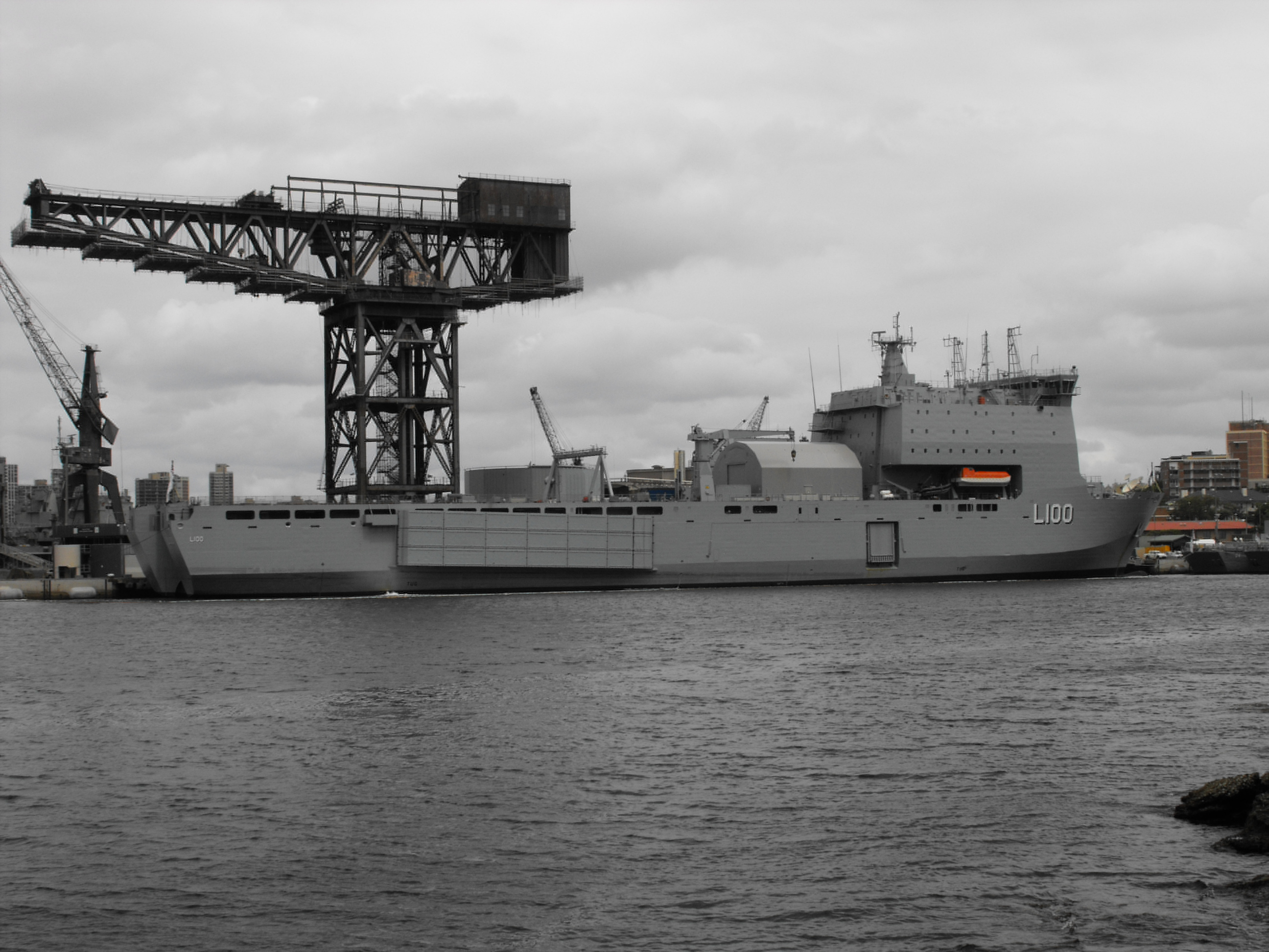 Starboard side view of HMAS Choules, alongside at Fleet Base East